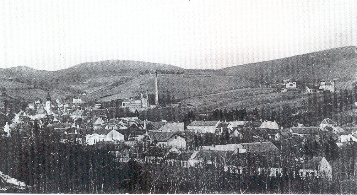 Grinzing seen from the South.